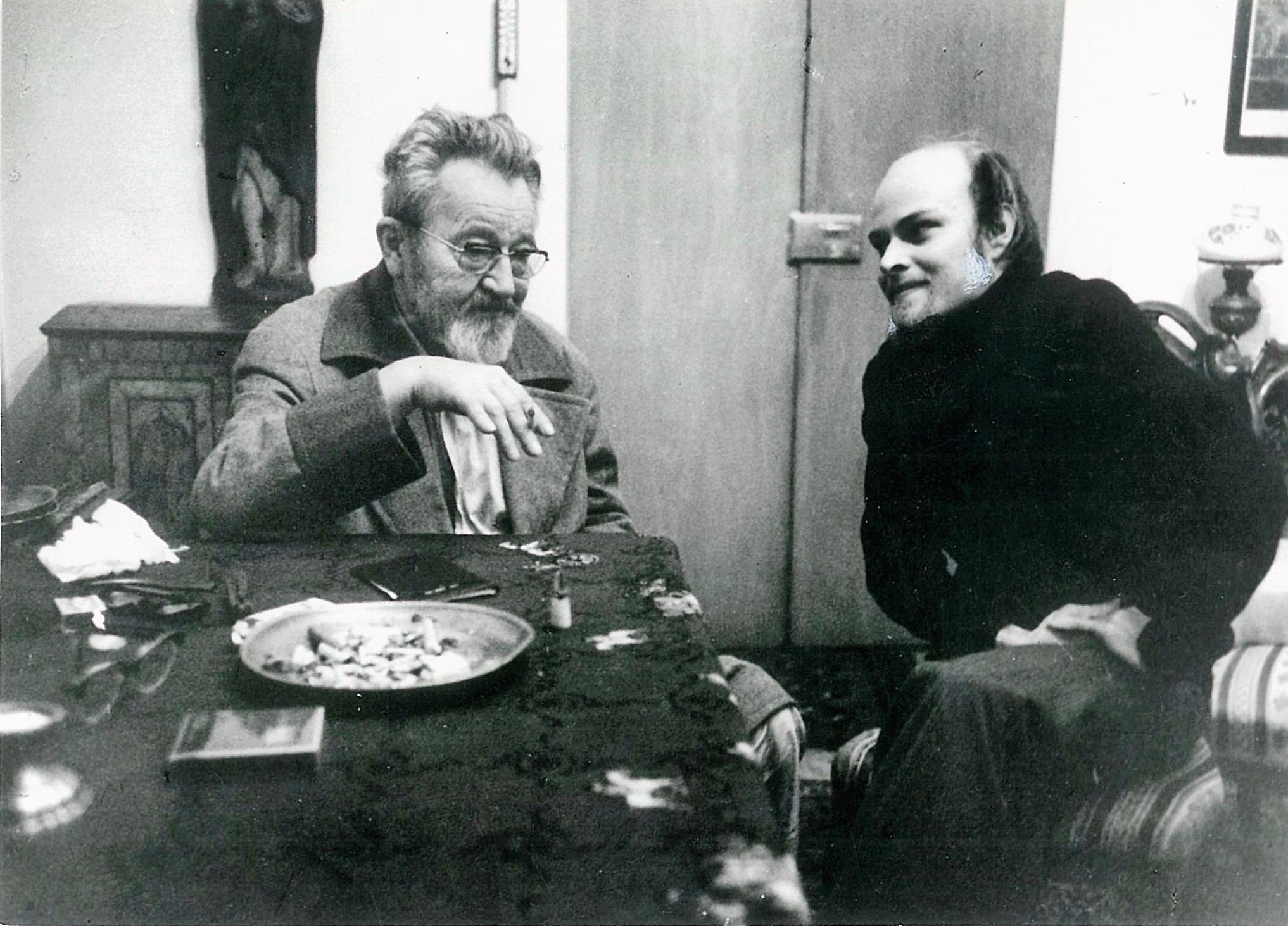 Jan Werich and Jaromír Pelc, Kampa, Prague 1977